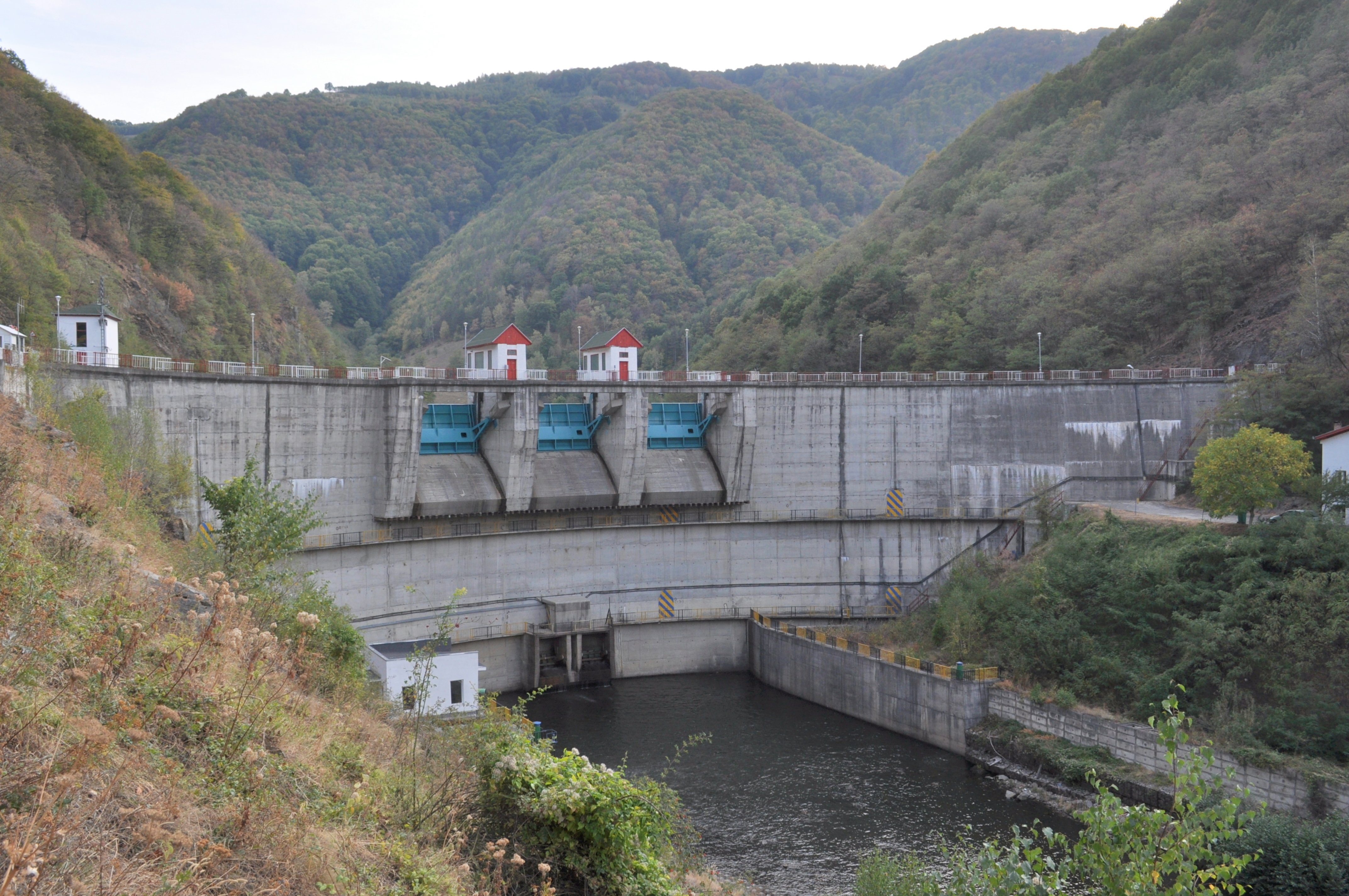 Obrejii de Căpâlna dam, Alba county, Romania